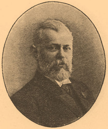 Illustration from Brockhaus and Efron Encyclopedic Dictionary (1890—1907)